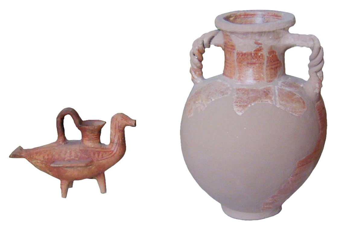 A part of archeological objects of the "Chapelle Cintas", in the tophet of Carthage.